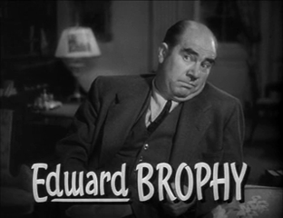 Edward Brophy in The Thin Man Goes Home, by Richard Thorpe (1945)